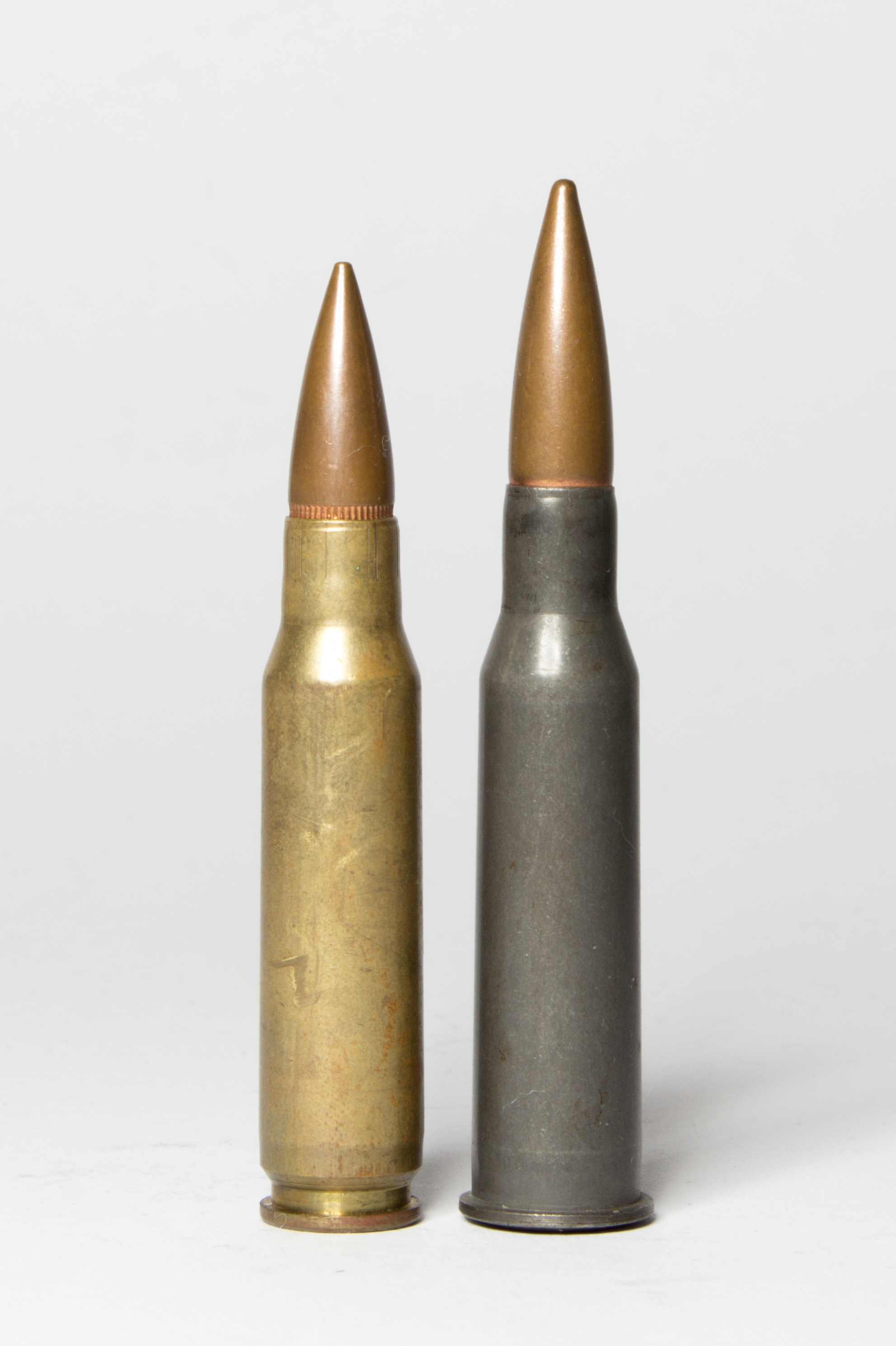 Caliber cartridges comparison - 7.62x51mm NATO and 7.62x54mmR